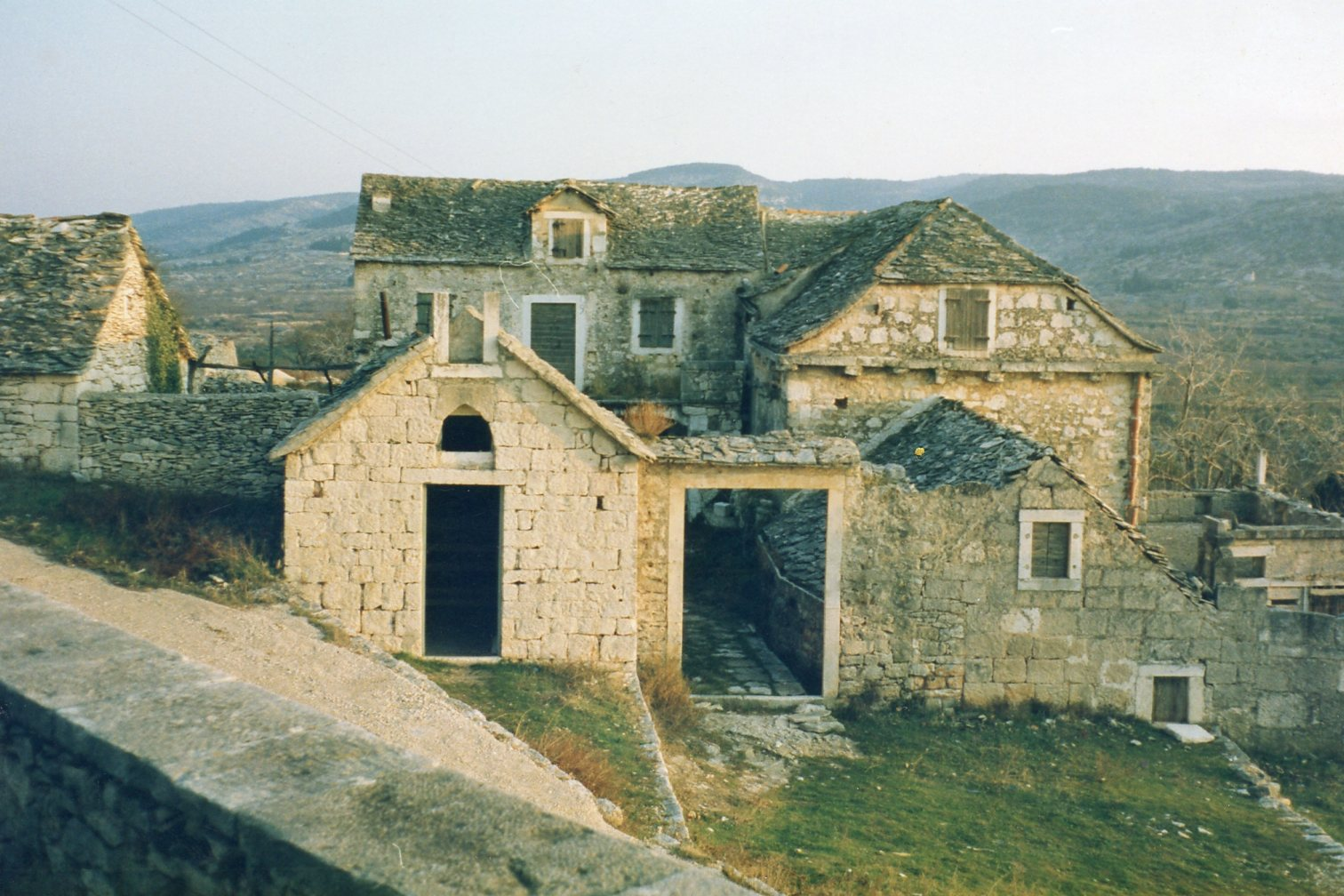 An old house in Donji Humac